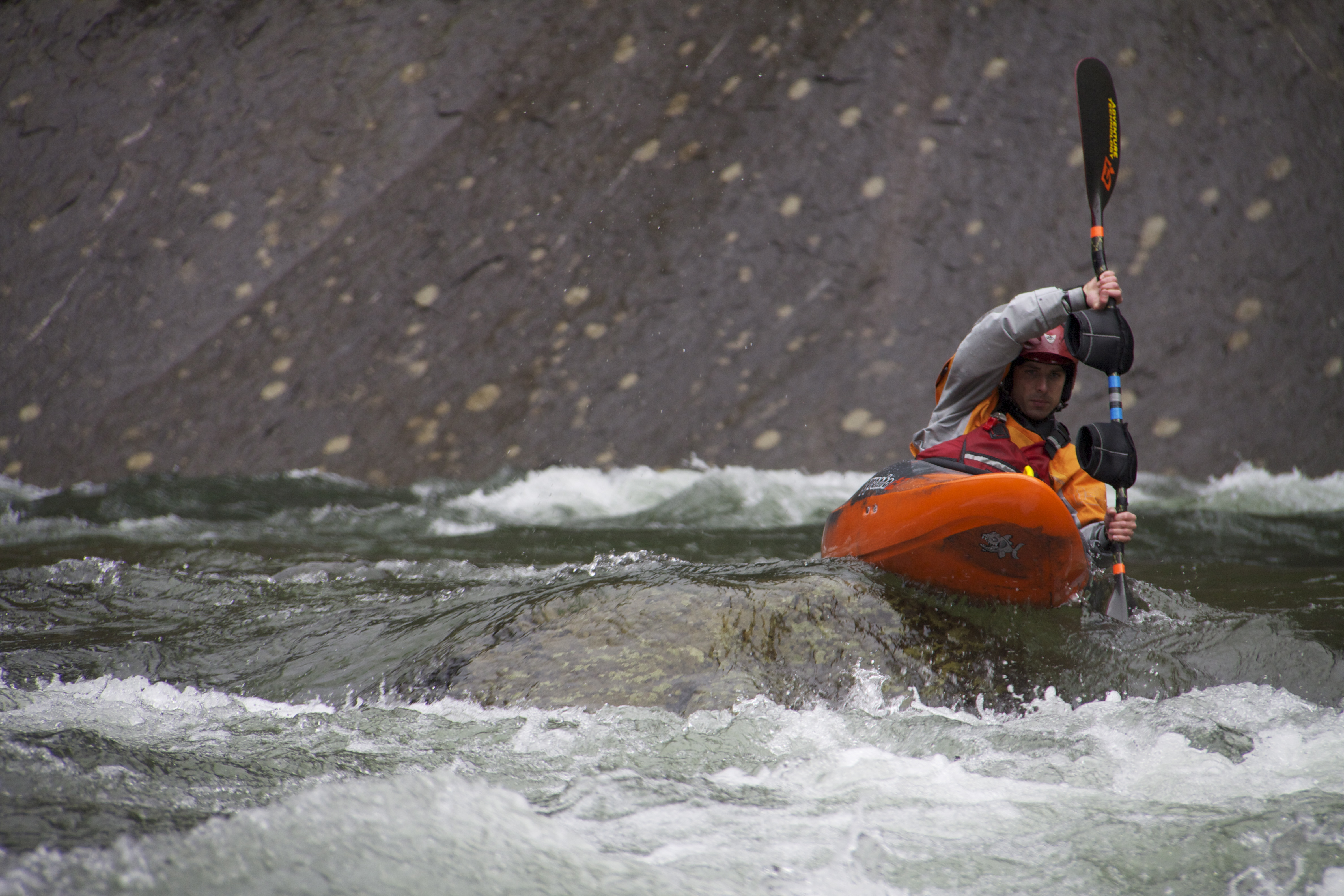 Kayaker with pogies connected to his paddle (he doesn't use them) in Wind River (presumably in Washington state), USA, entering Initiation rapid